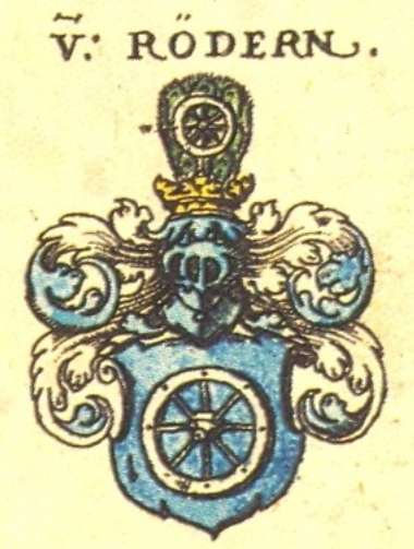 This is the old coat of arms of the Silesian family von Rödern, also called von Redern.